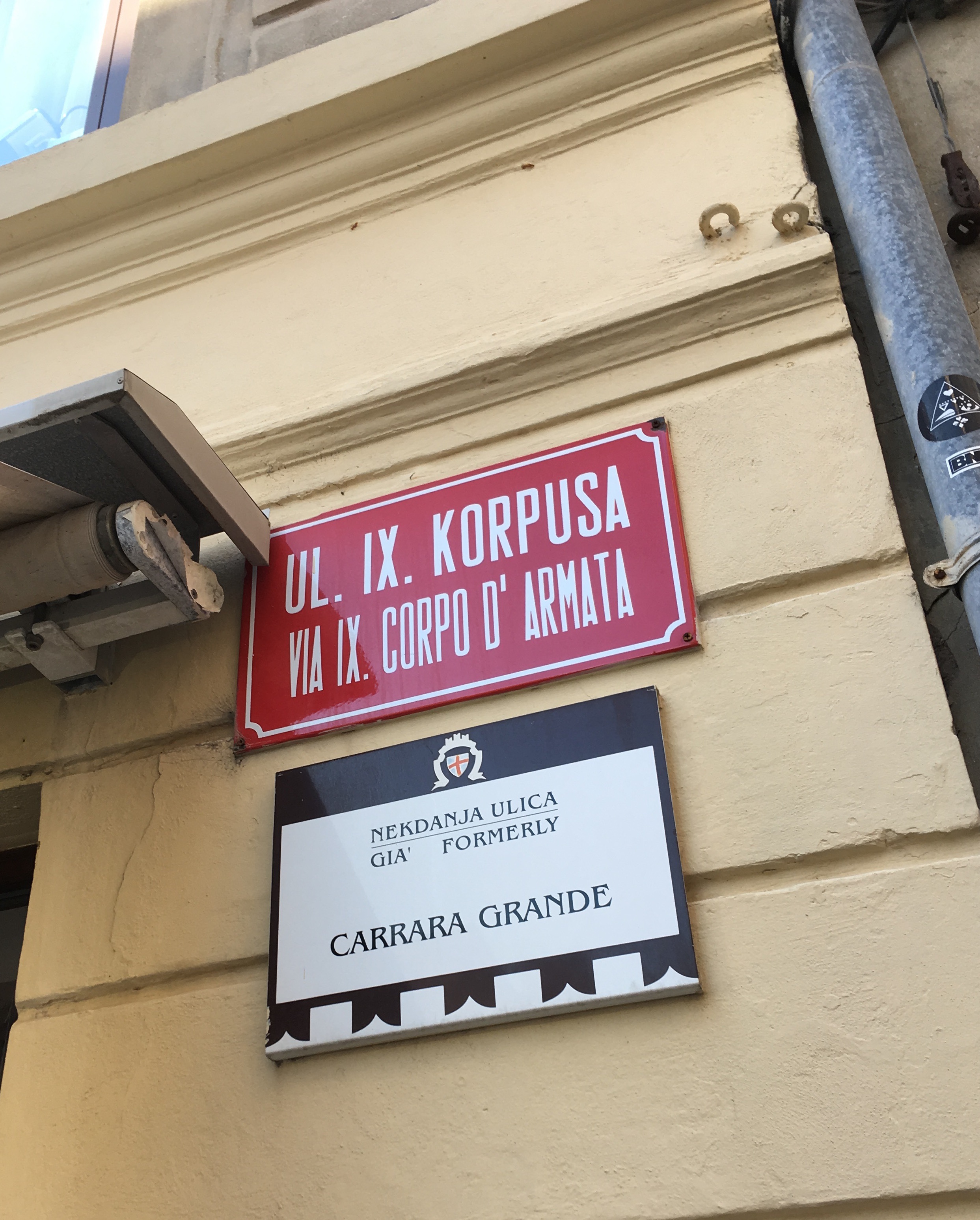 IX Korpus road in Piran, Slovenia